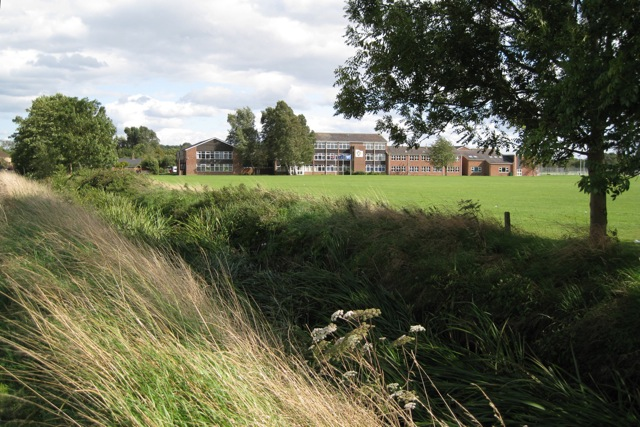 Aylesford School, Warwick One of Warwick's two state secondary schools, seen across the channel of the Gog Brook from Shelley Avenue.